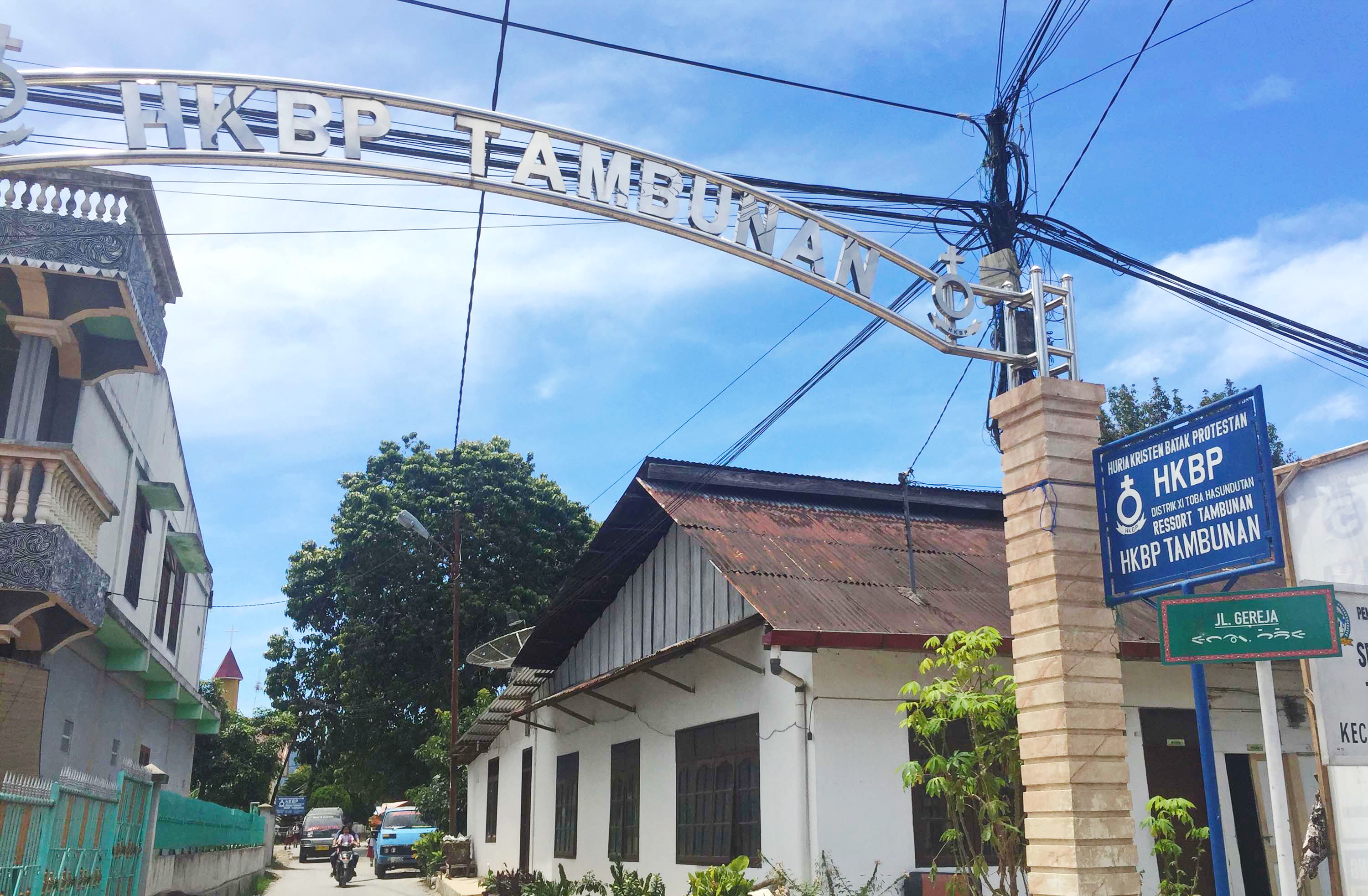 HKBP Tambunan, Res. Tambunan Church in Tambunan, Balige, Toba Samosir